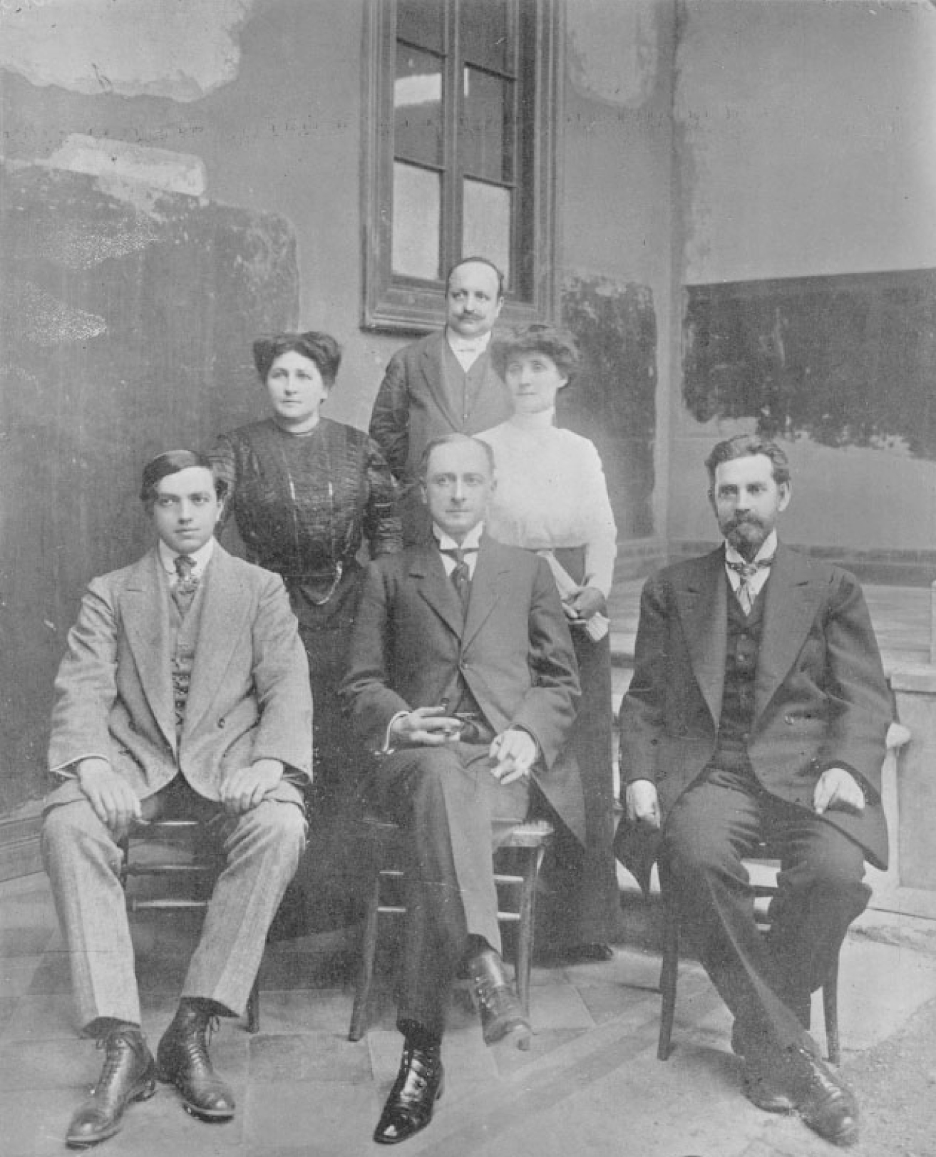 Administrators of Conservatorio Nacional de Música (Chile). Sitting from left to right: vice-director Enrique Soro, director Carlos Aldunate, general inspector Tucapel Navarro. Standing: inspectors Luis Sandoval y Bustamante, Sara Cifuentes, Aurora Soto.